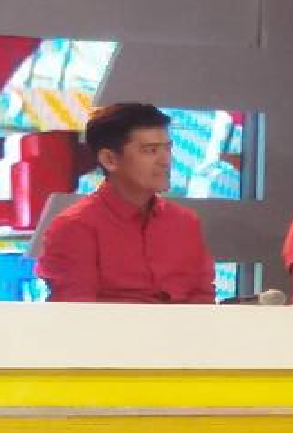 Cropped from original photo I caught on December 9, 2015 at Broadway Studio, Quezon City.